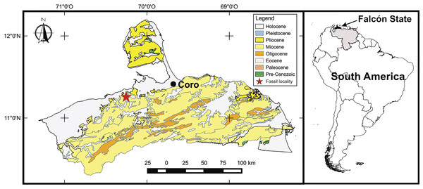 Map of the Venezuelan state of Falcón showing the fossil locality within the Miocene deposits.